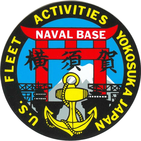 Seal of United States Fleet Activities Yokosuka